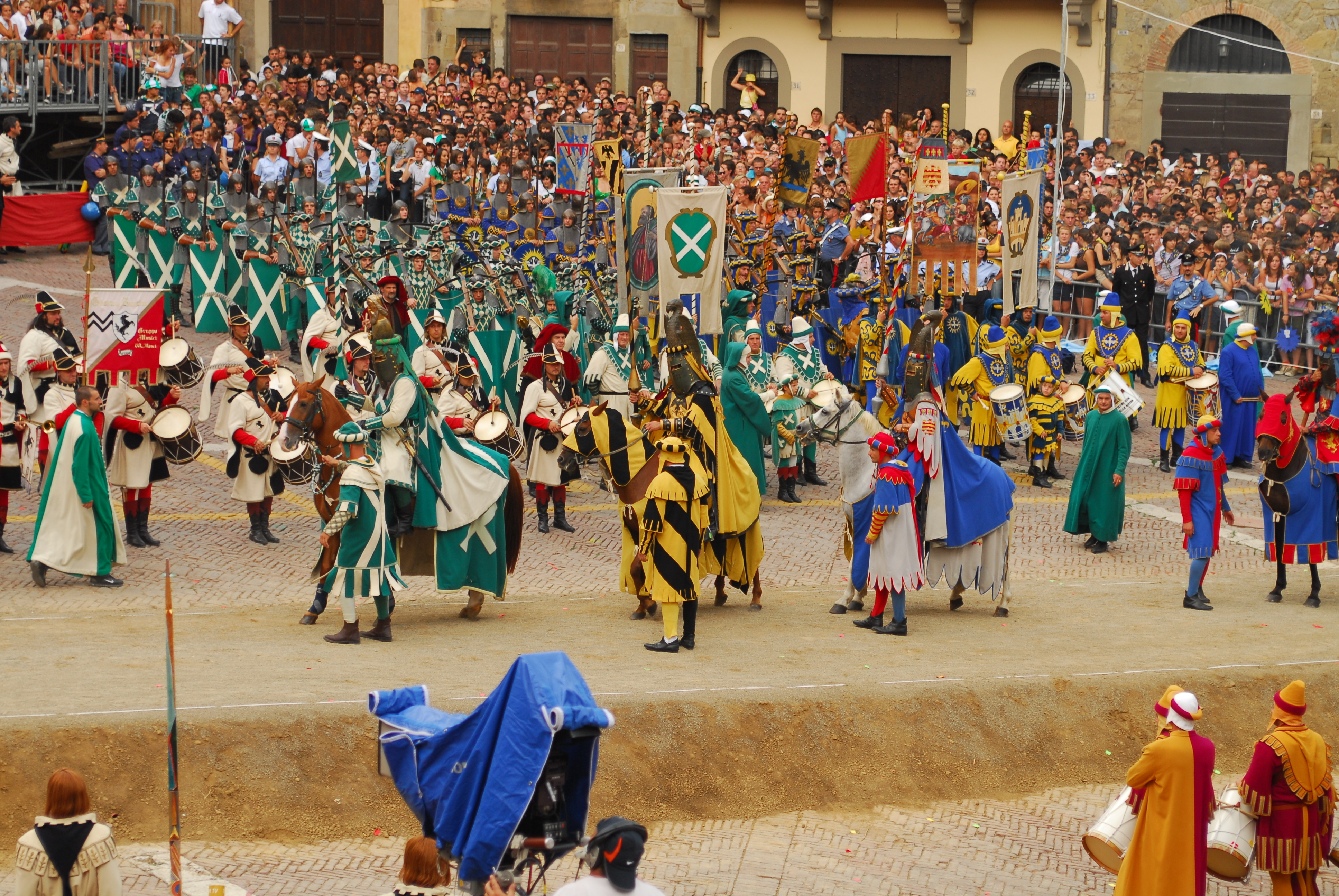 Entrance of the Knights at the Giostra del Saracino in Arezzo, Italy, Sept. 2007